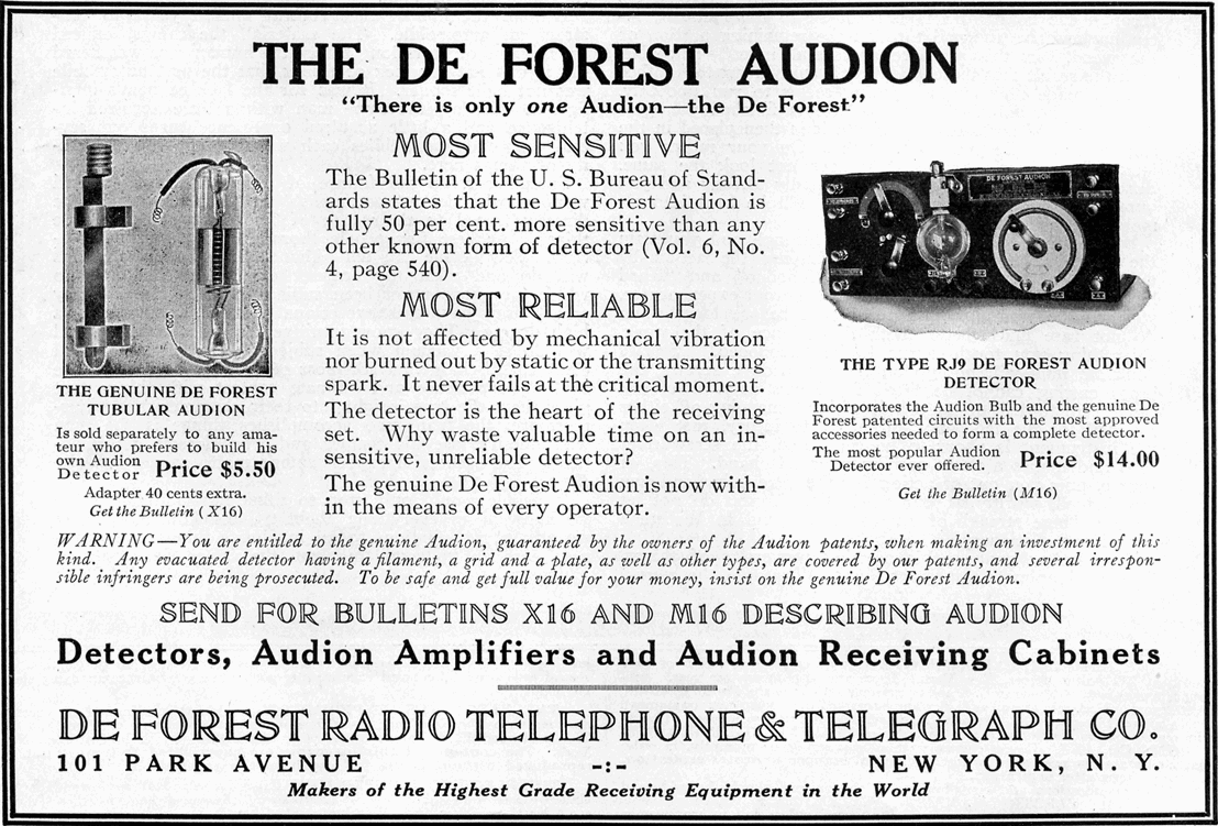 Advertisement for the Audion vacuum tube invented by Lee De Forest in 1907, from The Electrical Experimenter magazine, August 1916, volume 4, number 4, page 228. This was the first triode, the first vacuum tube that could amplify electrical signals. It was used by amateur experimenters as well as commercial companies to build the first amplifying radio receivers, as indicated in the advertisement. By the time of this advertisement, improved versions were being sold by General Electric and other manufacturers, as shown by De Forest's efforts to differentiate his product.